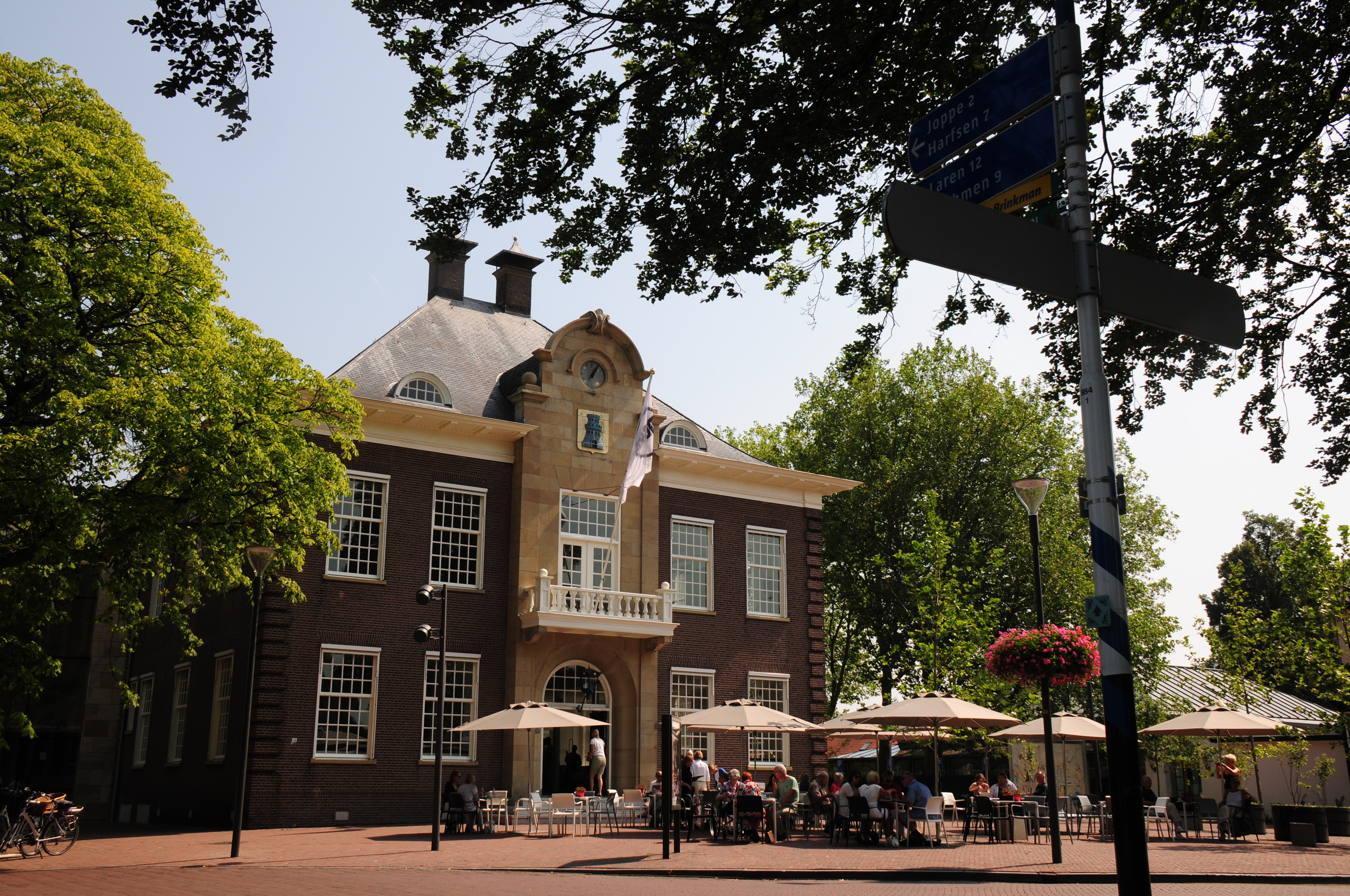 Restaurated traditional Manor at Gorssel, now Museeum More, mostly in the new building behind it